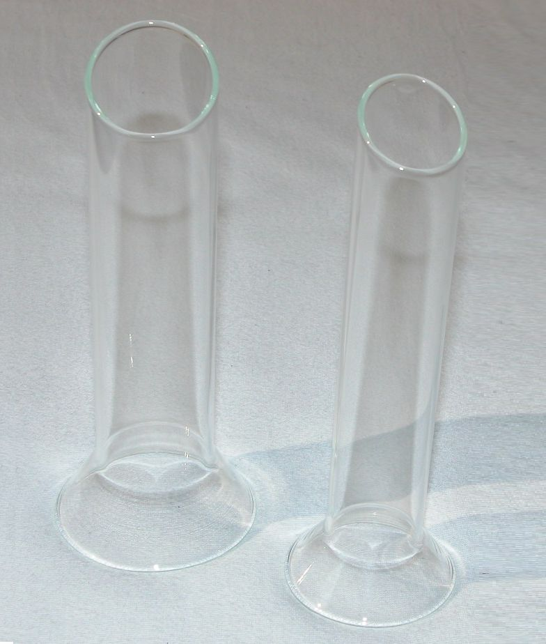 Spekulum made out of glas